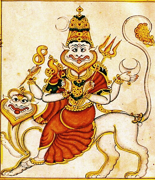 This file shows Pratyangira. Pratyangira is a goddess who destroys evil and is a devi. She also rides a tiger, has ayudham (weapon) and also is a lion-headed goddess.